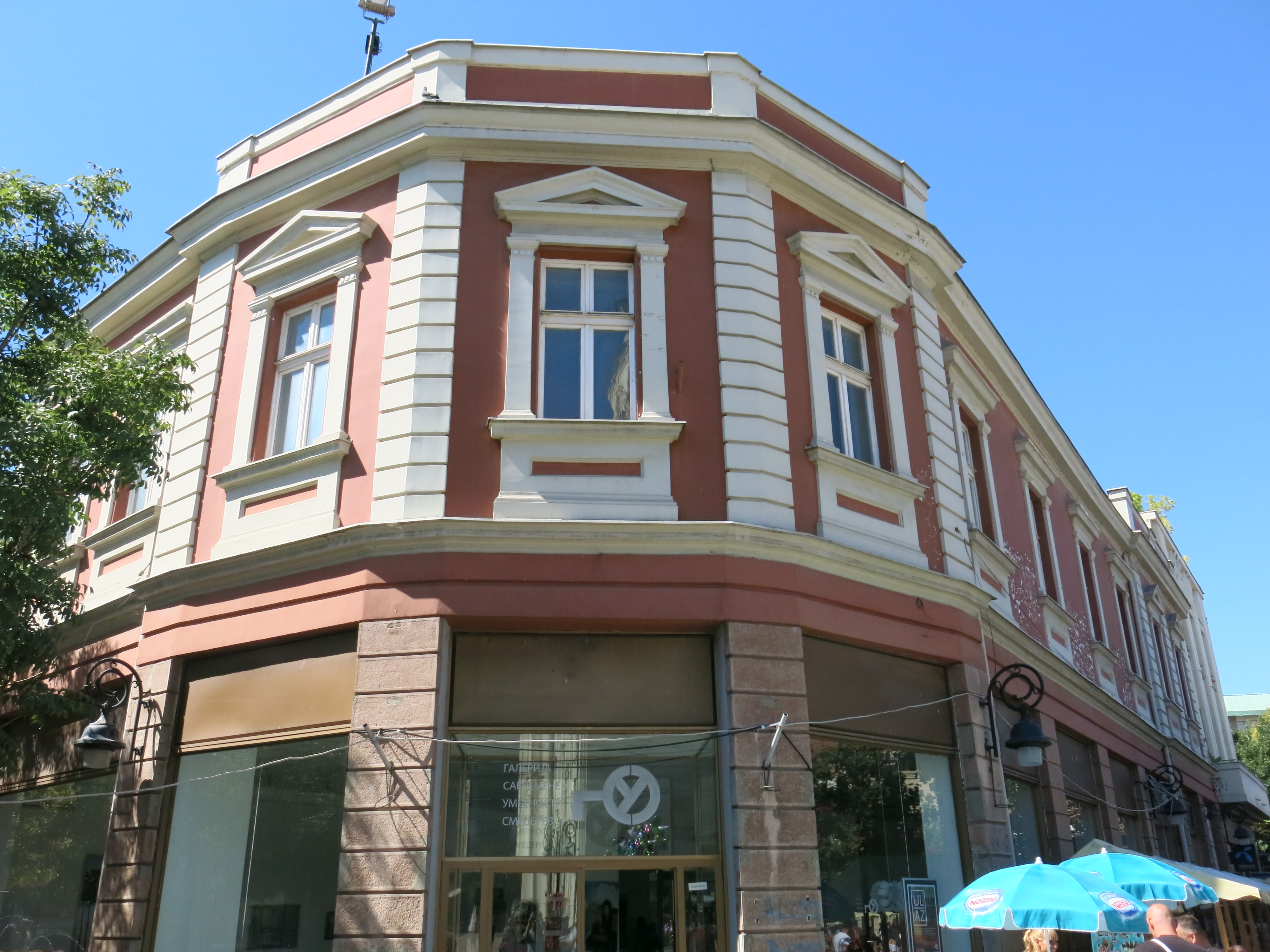 Smederevo, Gallery of modern art